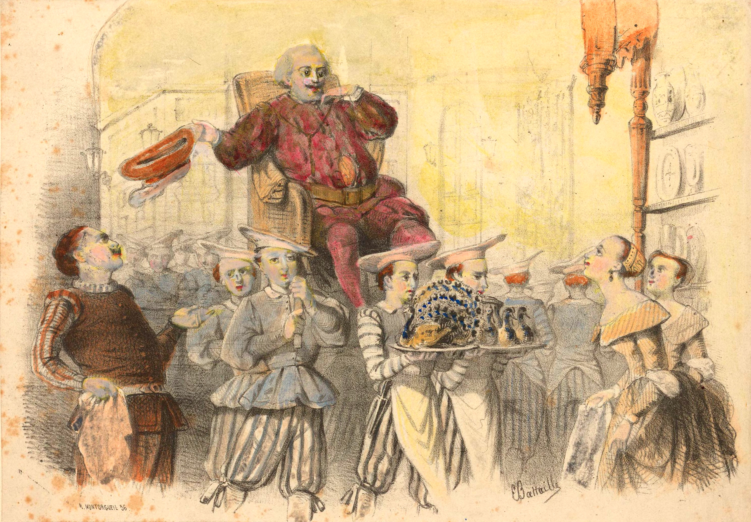 Ambroise Thomas - Le Songe d'une nuit d'été - Charles Battaille as Falstaff